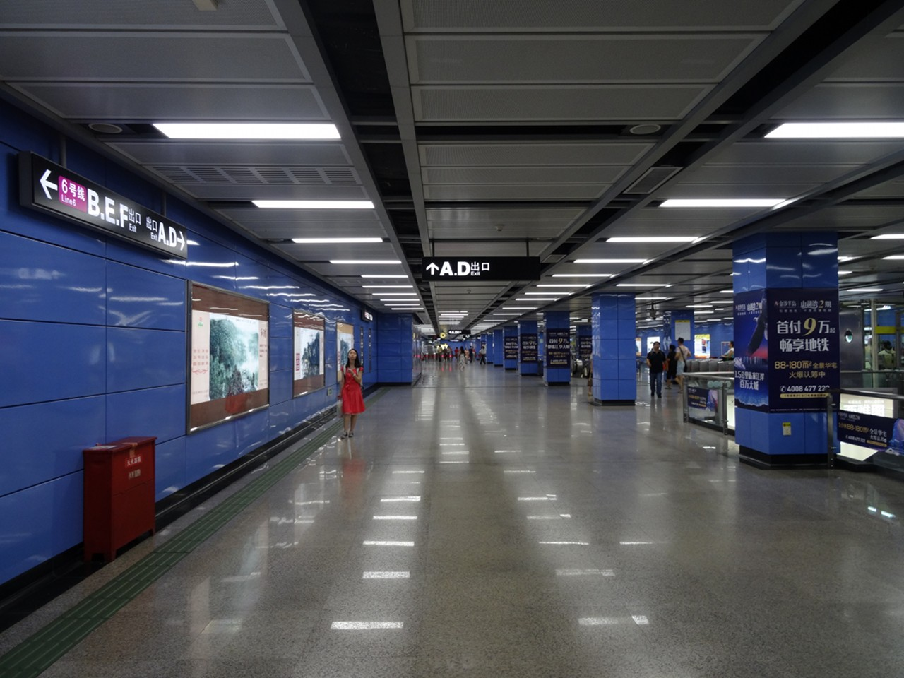 海珠廣場站2號線嘅站廳